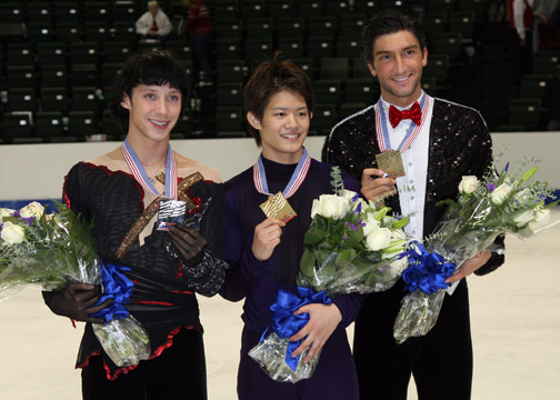 2008_Skate_America_Mens_Podium; From left to right: Johnny Weir (2nd); Takahiko Kozuka (1st); Evan Lysacek (3rd).